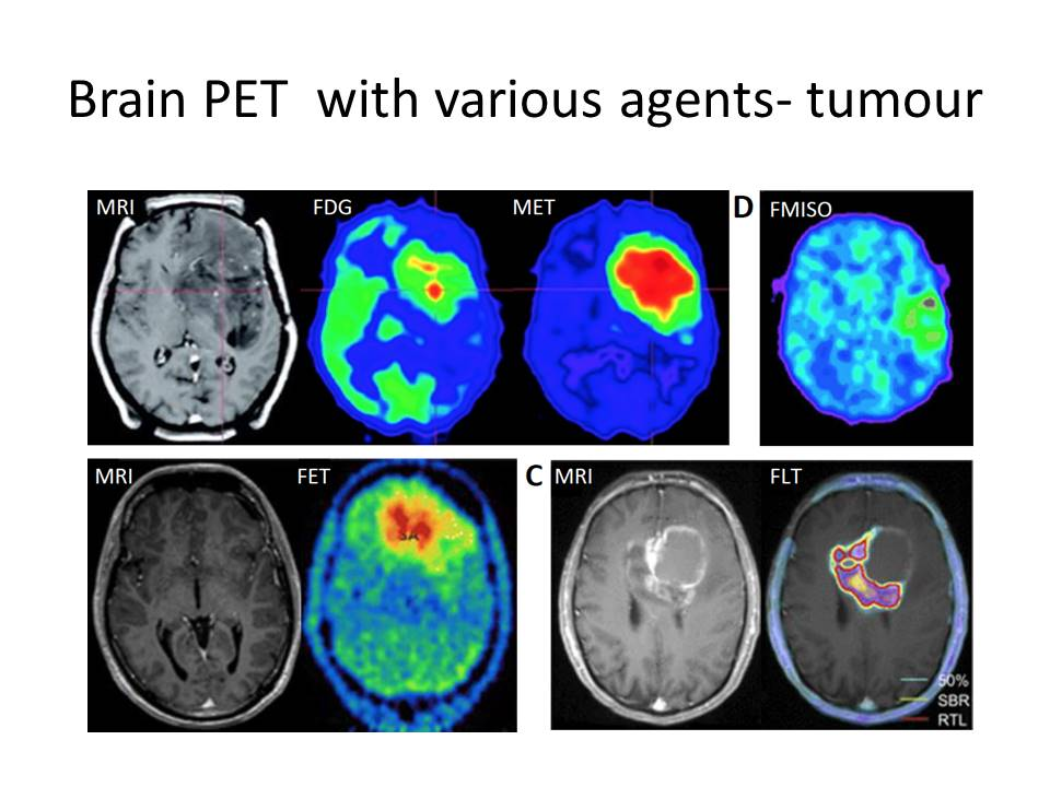 Brain Tumour Imaging